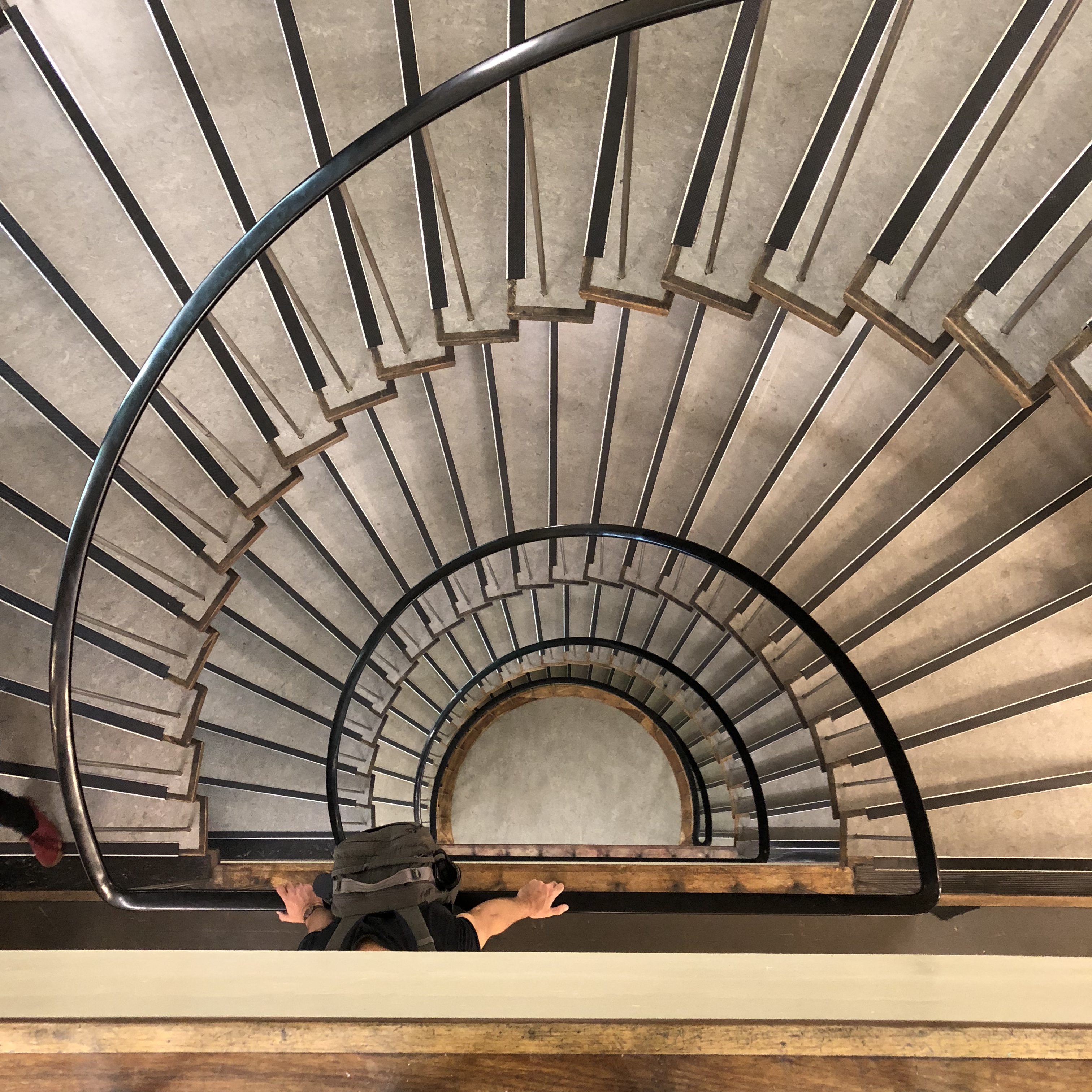 Stair at the Baillieu Library